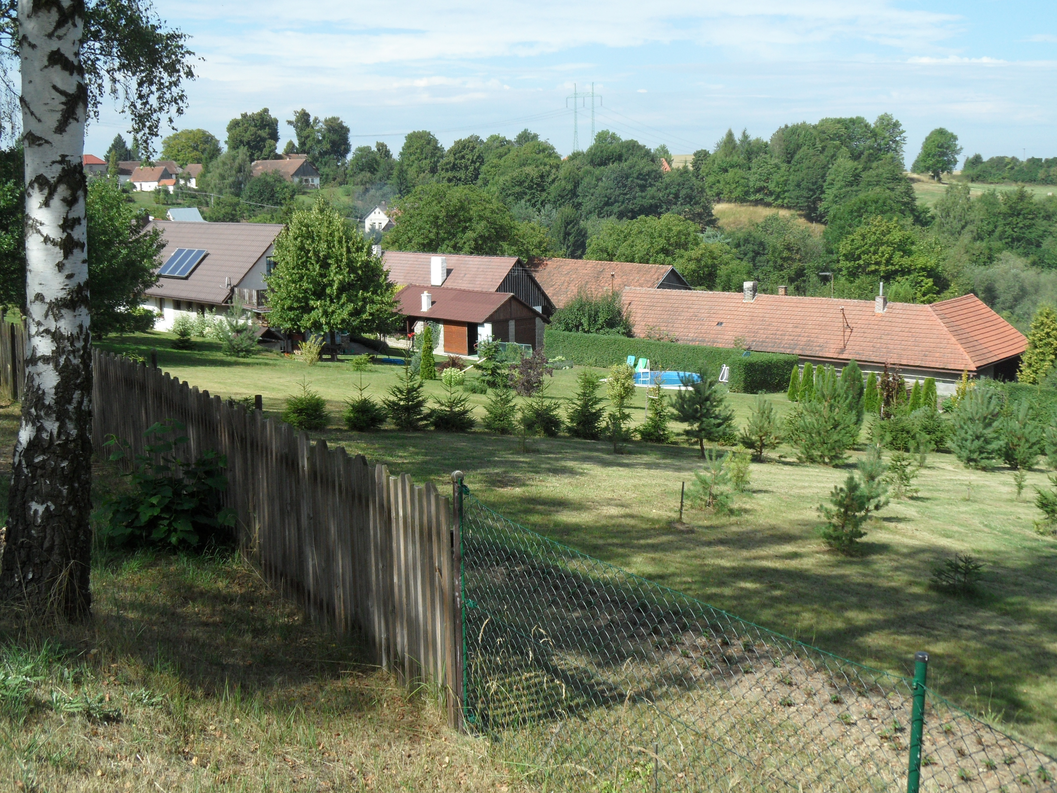 Machovice A. Overview from East Edge, Kutná Hora District, the Czech Republic.